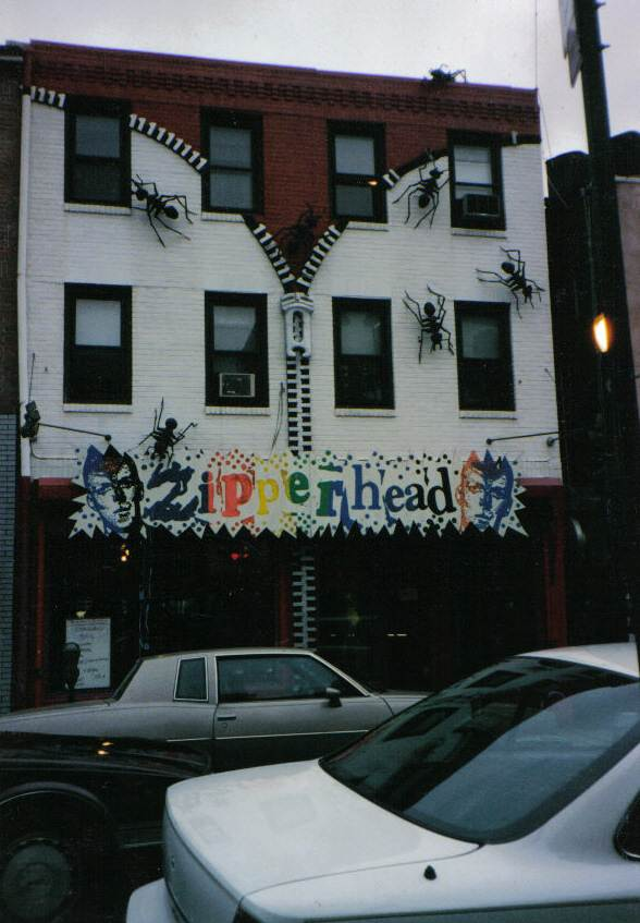 Zipperhead was a store located on South Street (Philadelphia) and referenced in the Dead Milkmen song "Punk Rock Girl". Taken in February 2000 on South St. Philadelphia, PA.